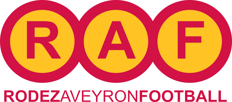 Logo of Rodez AF